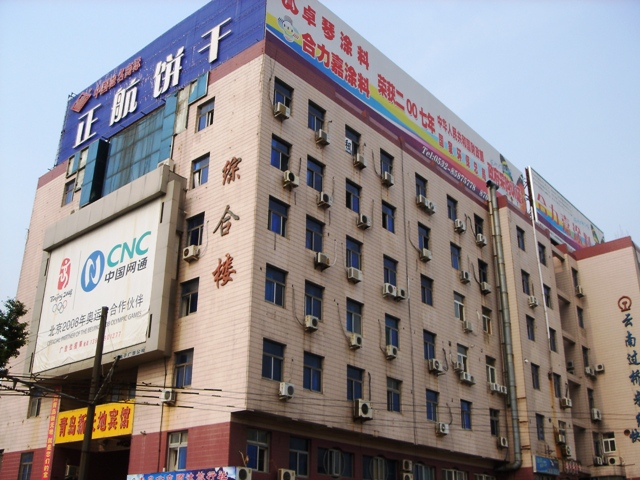 Yuanyi Hostel Qingdao, Qingdao.